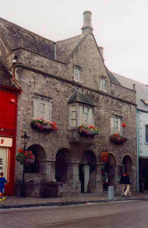 Rothe House, is a late 16th century merchant's townhouse complex located in the city of Kilkenny. The complex was built by John Rothe Fitz-Piers between 1594–1610 and is made up of three houses, three enclosed courtyards, and a large reconstructed garden with orchard.